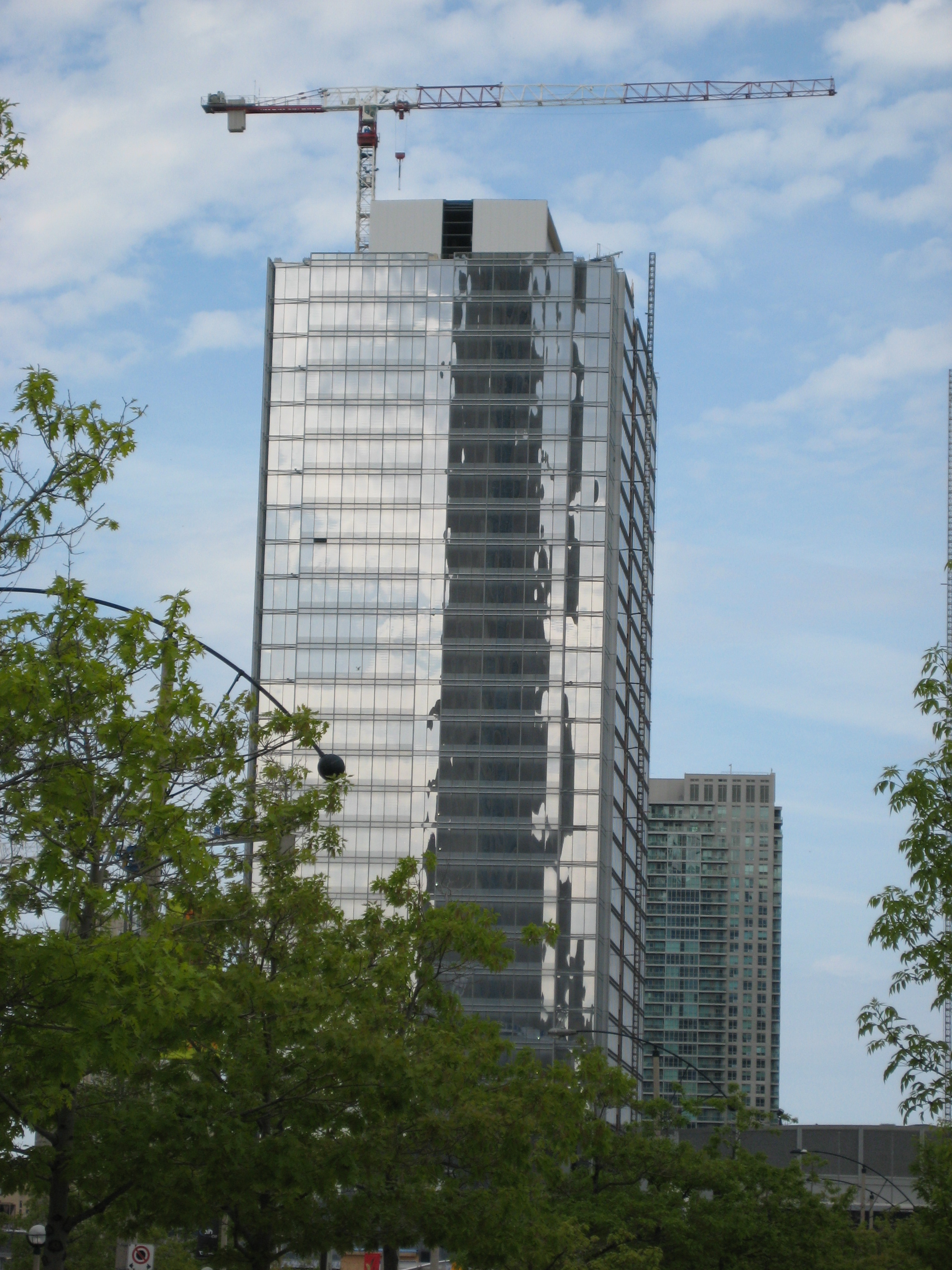 Telus Tower